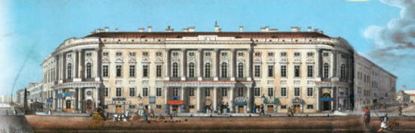 Chicherin House. Litography by I.A. Ivanov from the drawing by V.S.Sadovnikov. 1830.